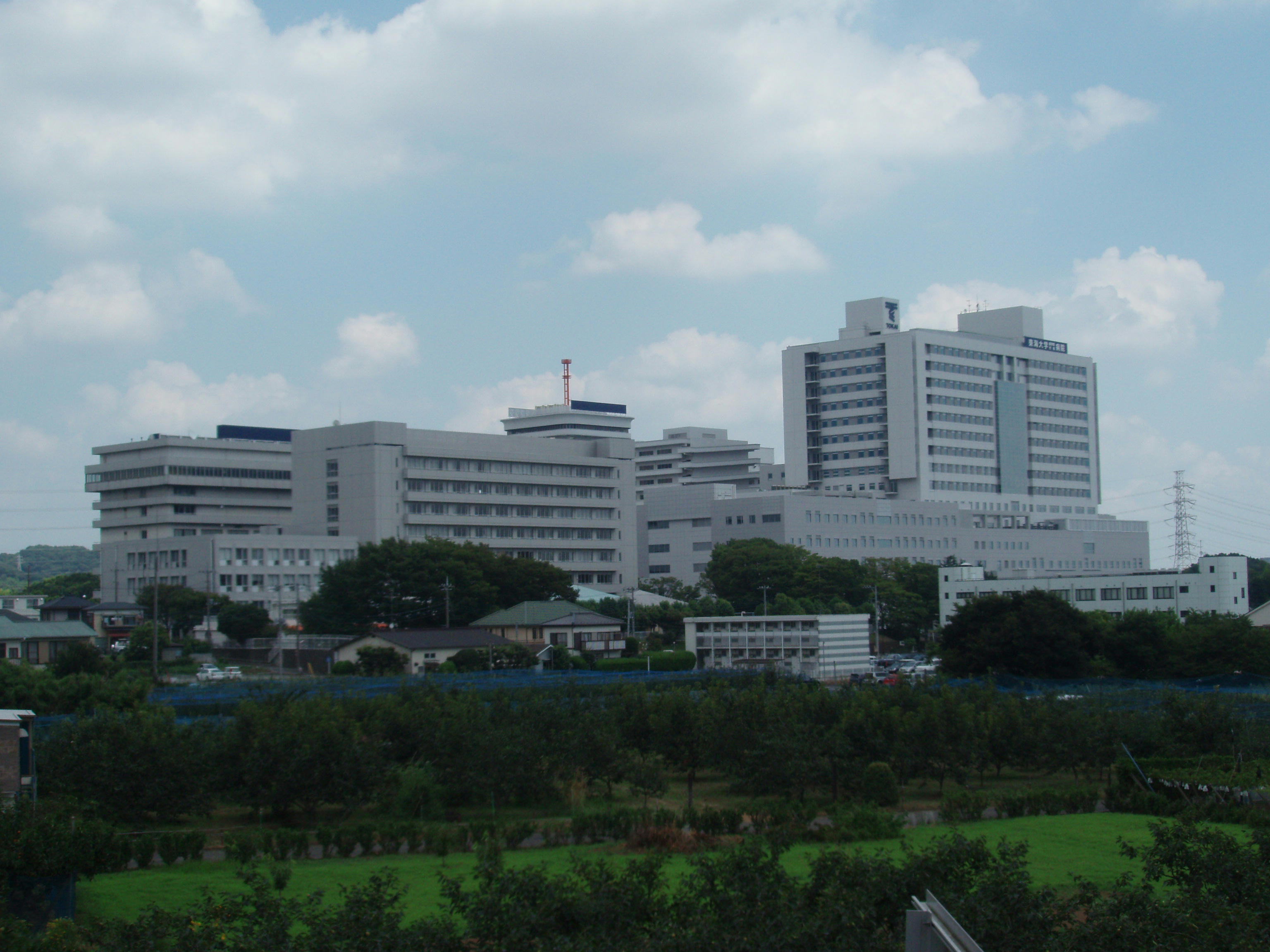 Tokai Univ. Isehara Campus